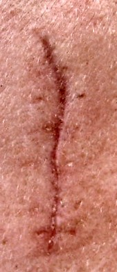 well healing 4cm small scar